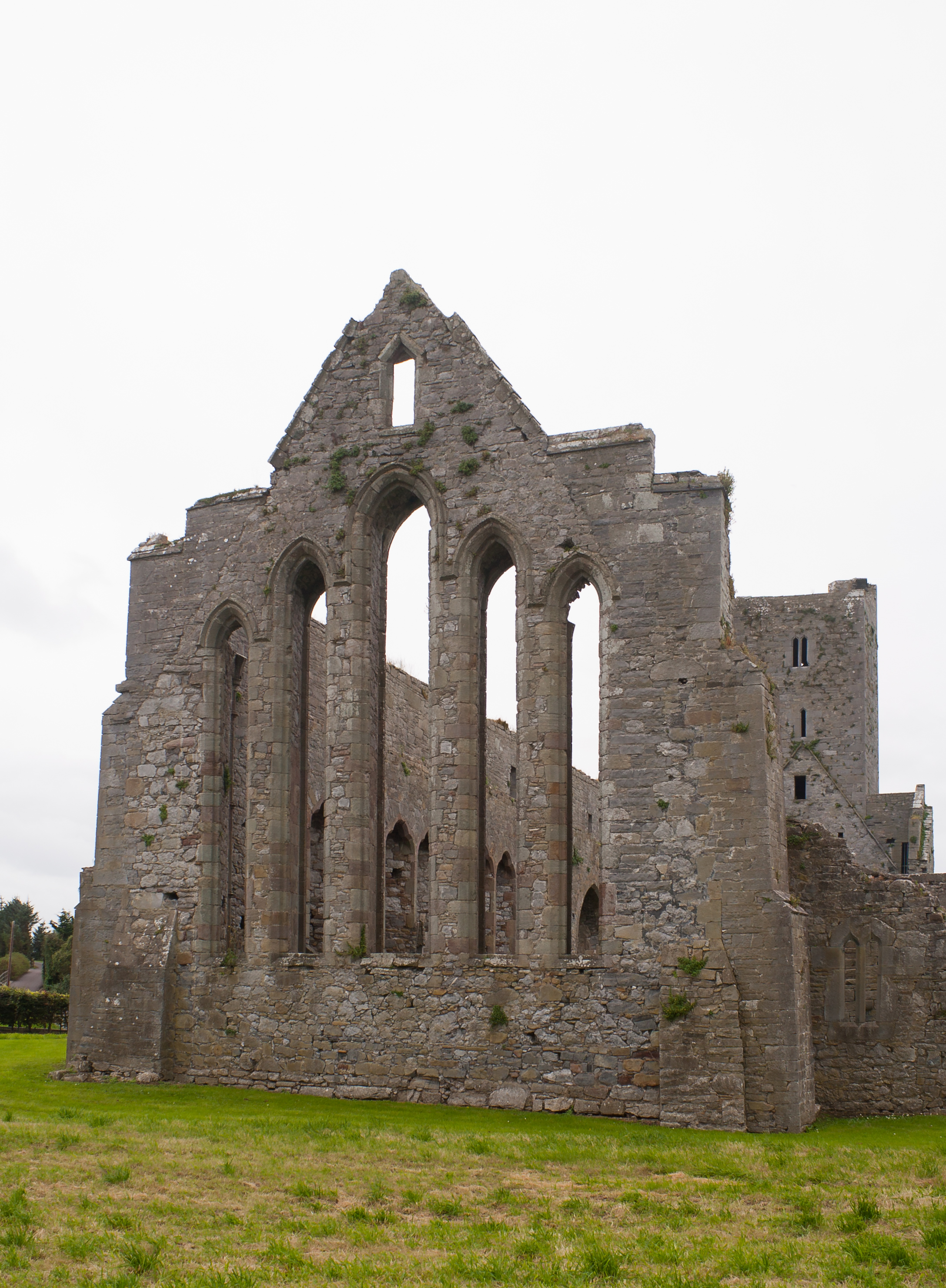 13th-century east window of the choir.